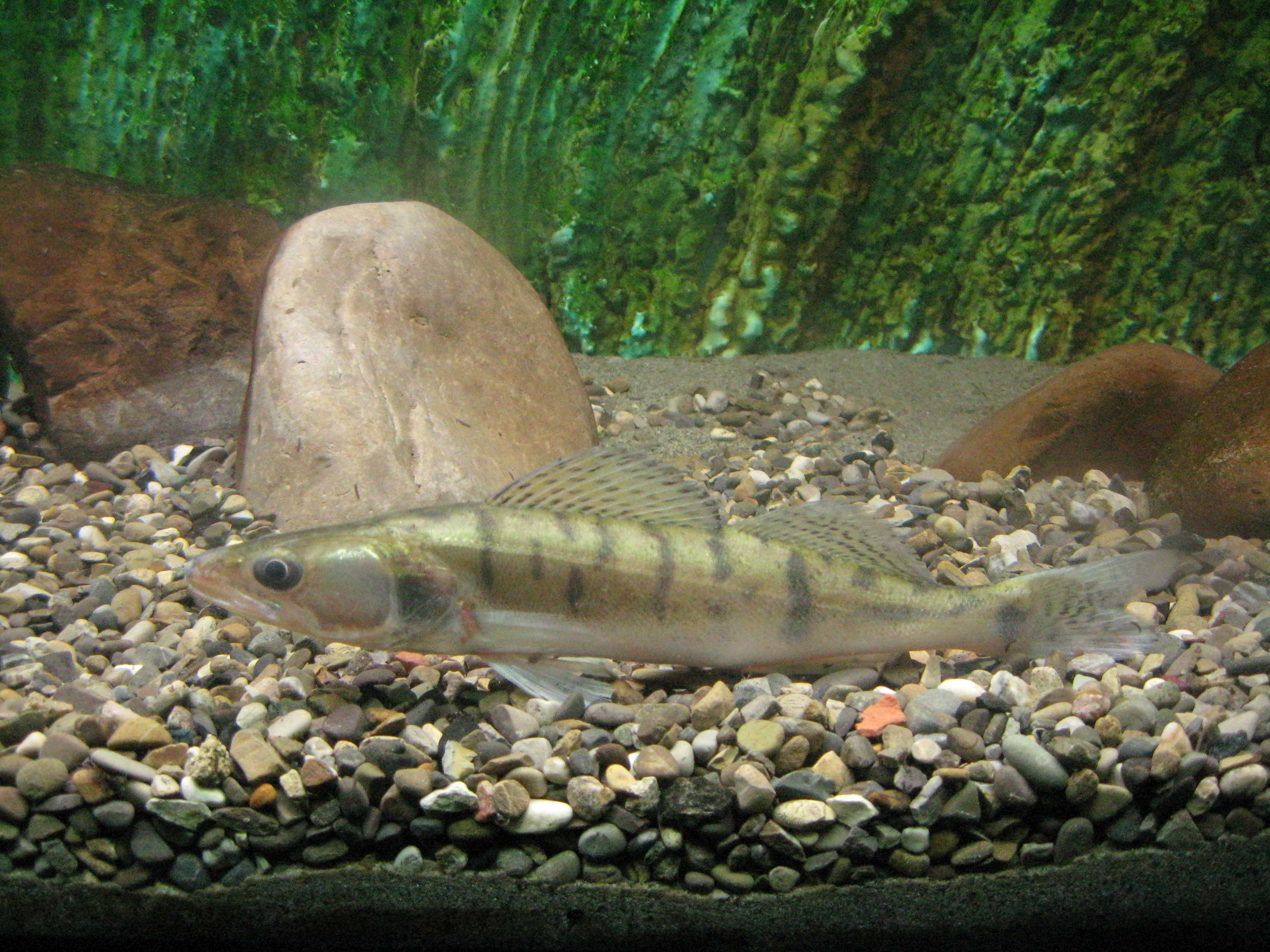 Sander lucioperca, Acquario del Po, Motta Baluffi, Cremona, Italy.